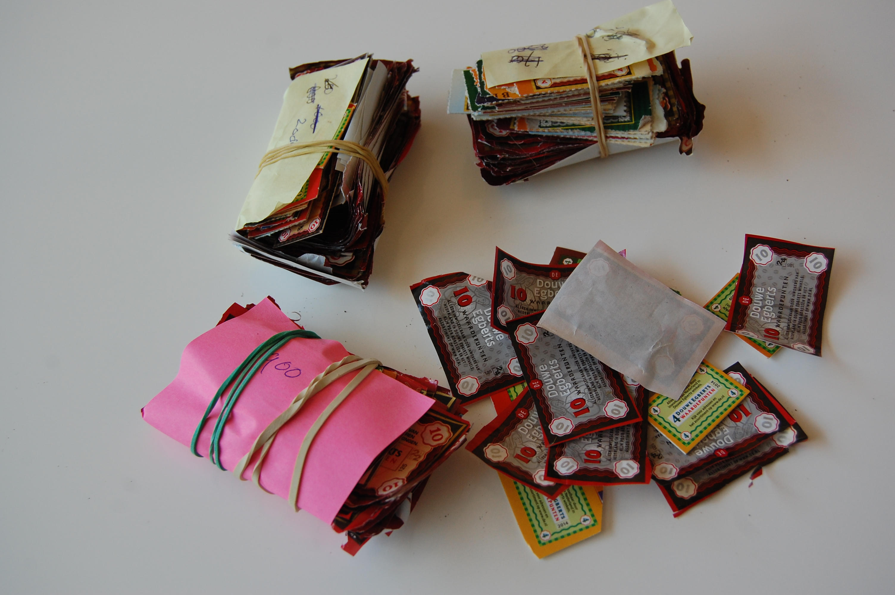 Loyalty points of coffee brand Douwe Egberts